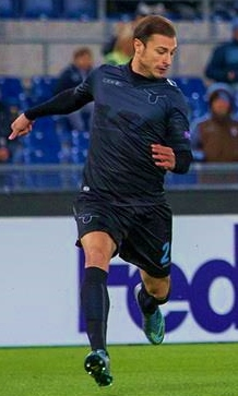 Ștefan Radu